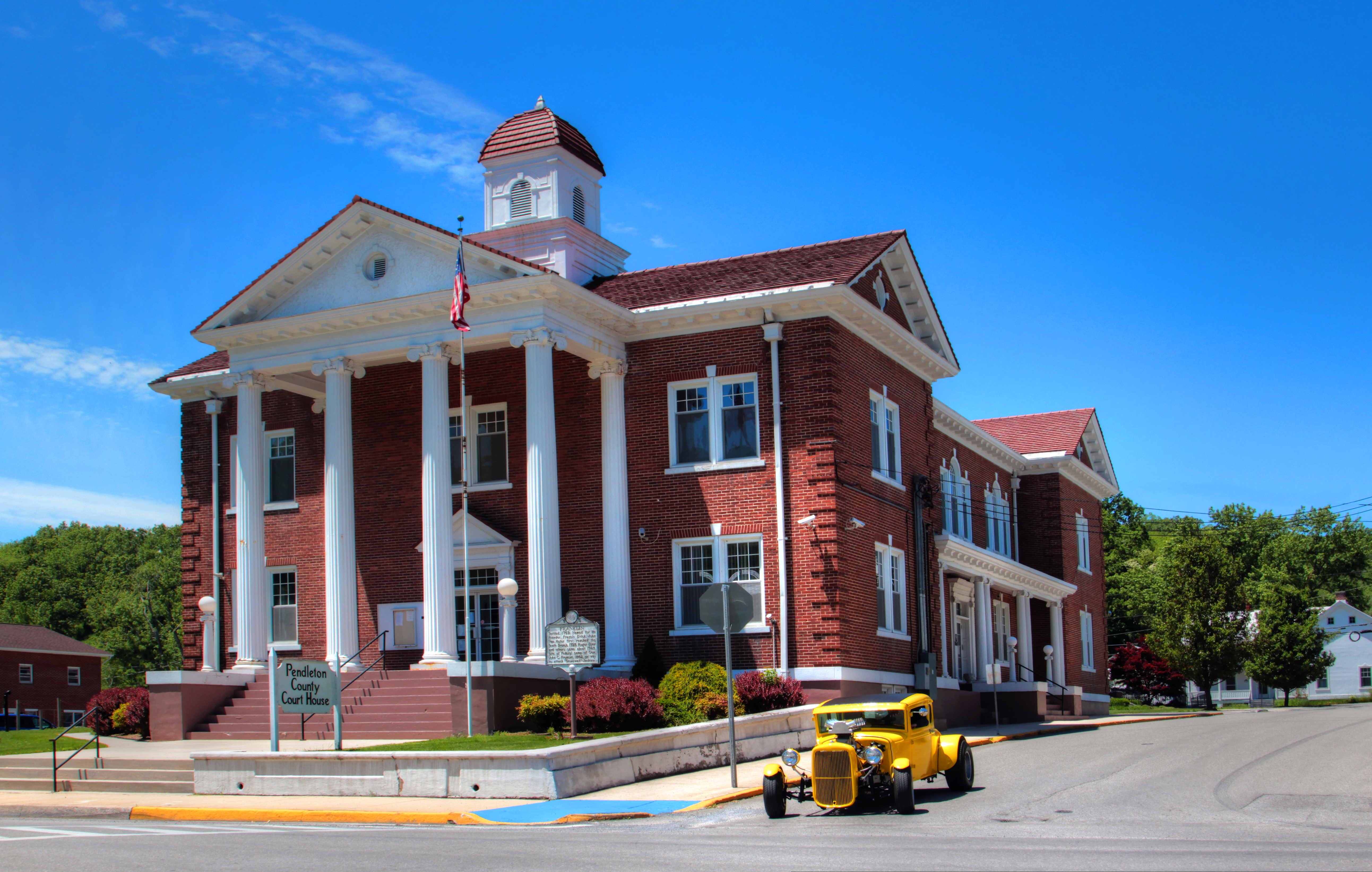 Pendleton County WV Courthouse on a sunny day in May. Just a random shot on a trip to the hardware store. The appearance of the "hot rod" in the foreground was pure luck..